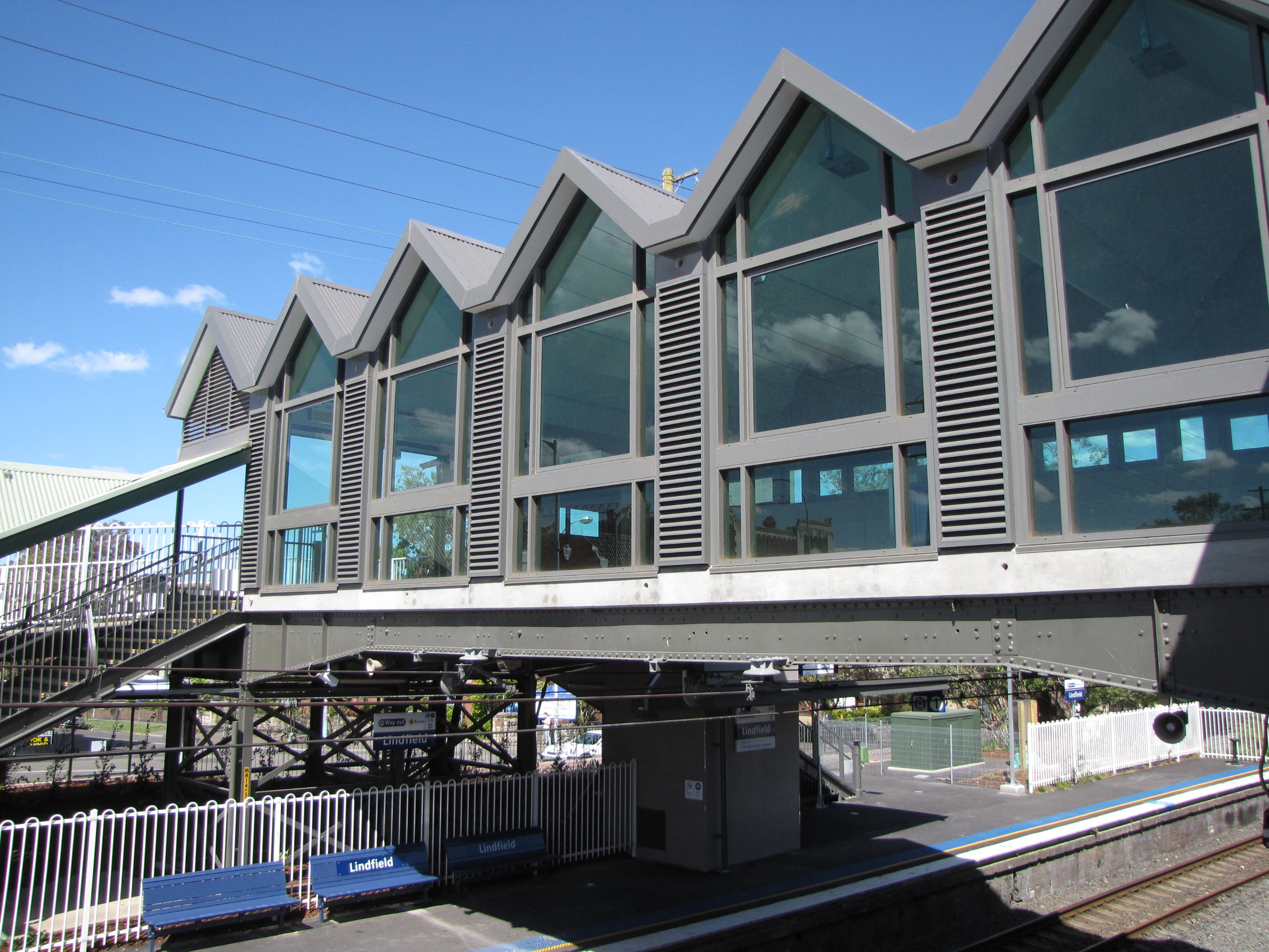 overhead concourse of lindfield